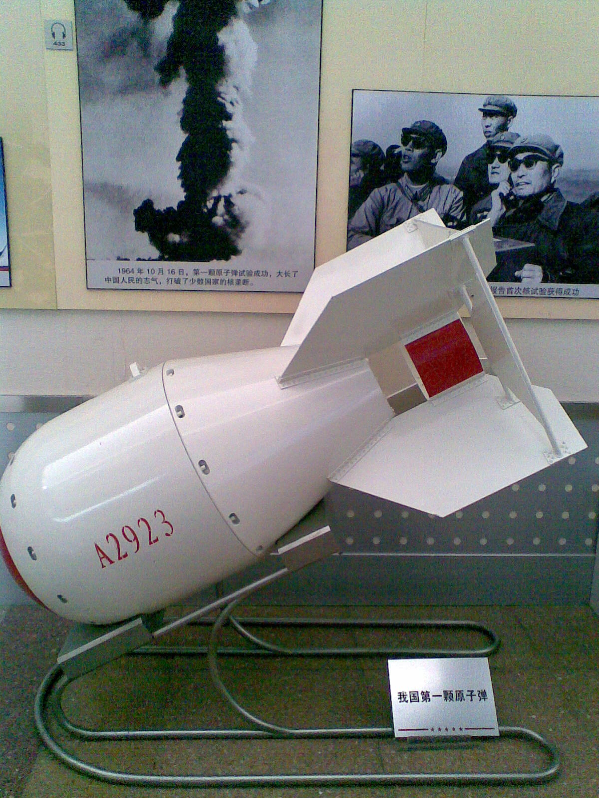 Chinese first atom missile